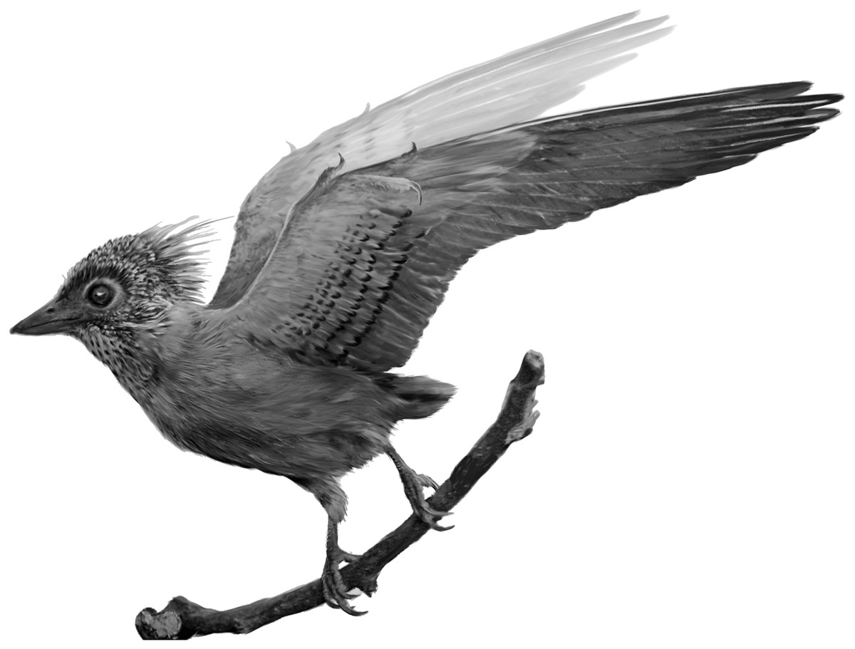 Reconstruction of the plumage in Confuciusornis CUGB P140. Morphological data and probable eumelanin signatures are consistent darker preserved regions as associated with dark colors in the fossil (sampling regime explained in Fig. 1).